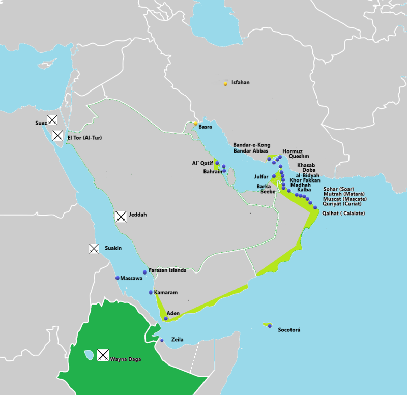 Portuguese in the Persian Gulf and Arabian Sea Light green – Portuguese controlled areas and cities Dark green – Portuguese allied territories or under their influence